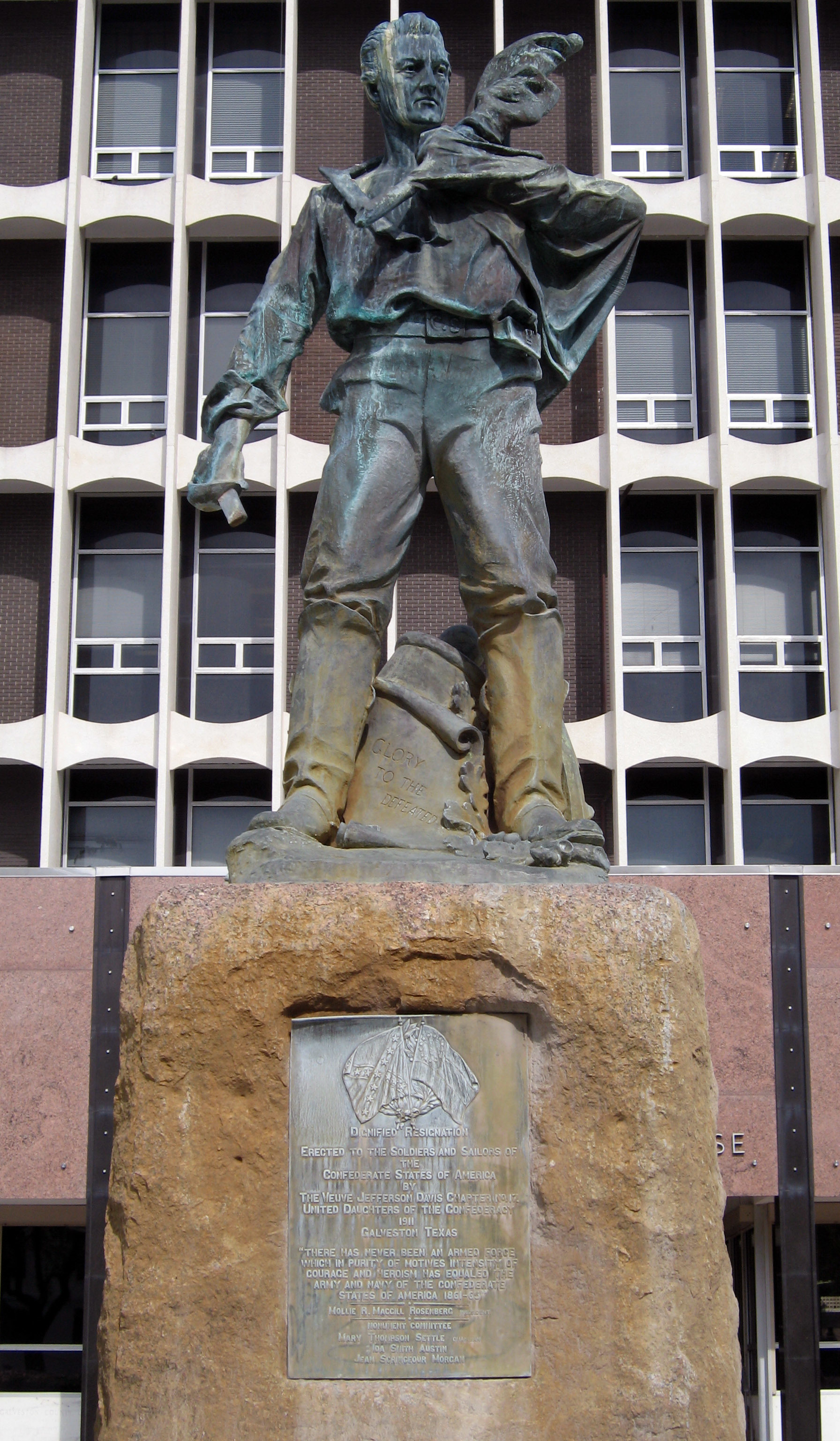 Civil war monument in Galveston, Texas. Located on the grounds of the Galveston County (Civil) Courthouse, 22nd & Ball.Monument created in 1911 (see plaque) so is in public domain in US.